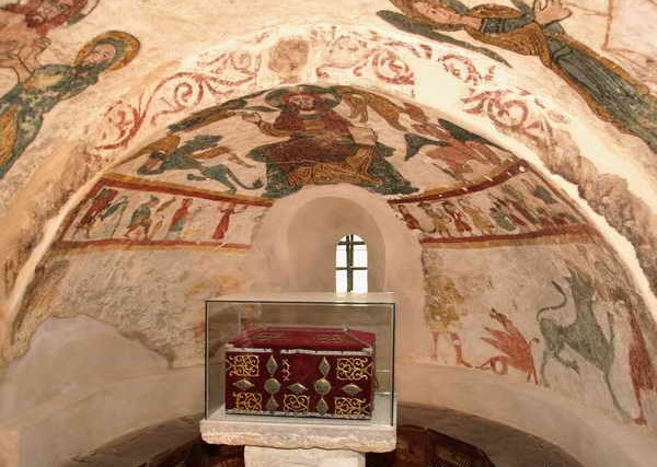 Romanesque frescoes at Roda de Isàvena collegiate church, ancient cathedral, with Saint Valerius' shrine